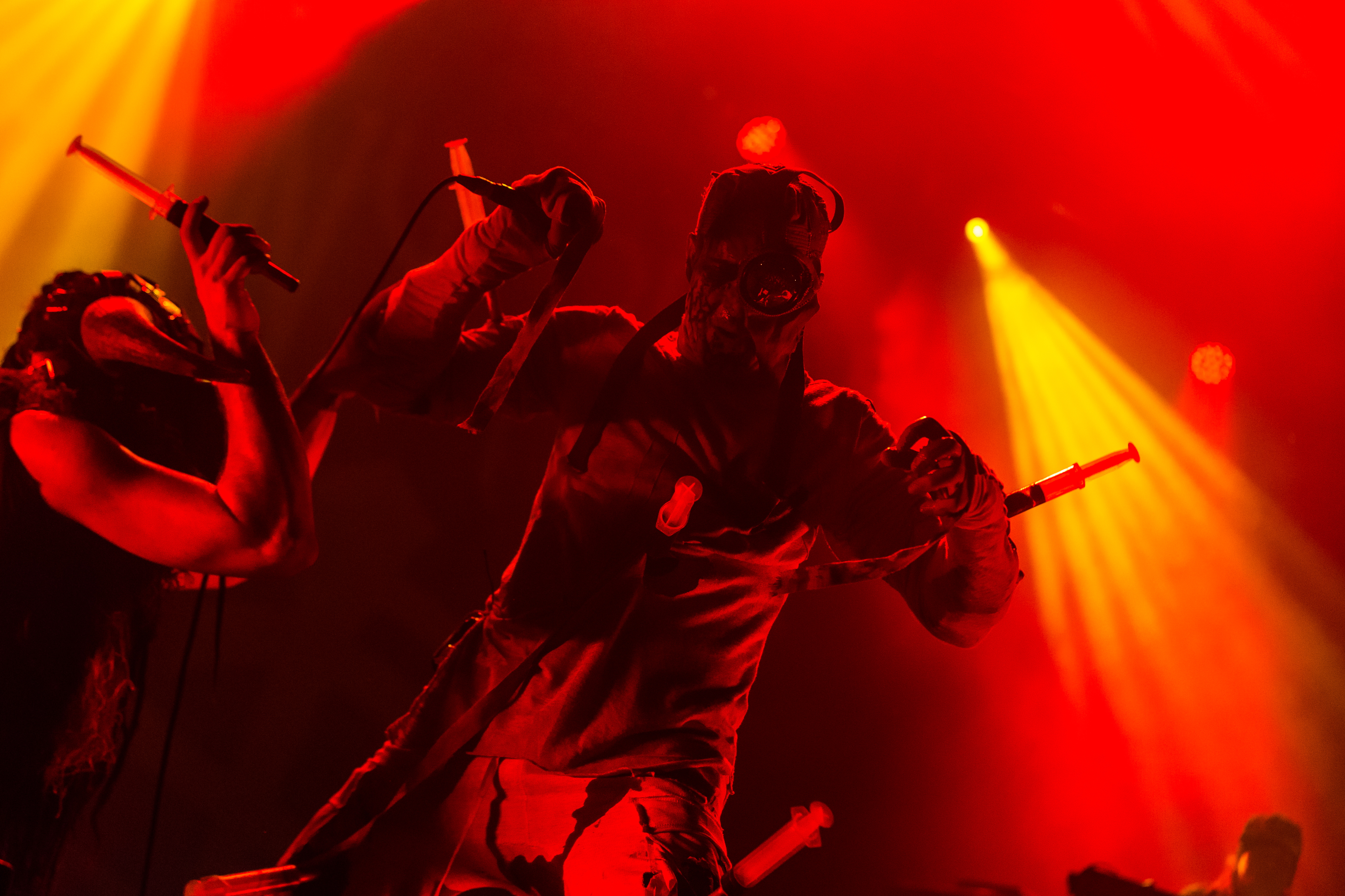 The Canadian industrial band Skinny Puppy at the Wave-Gotik-Treffen 2017 in Leipzig/Germany (Venue Agra).